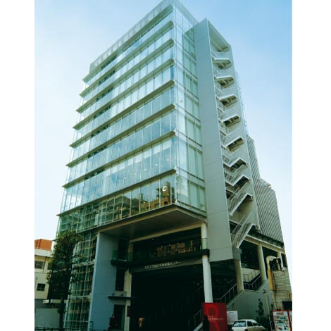 Comprehensive Academic Information Center, Rissho University.